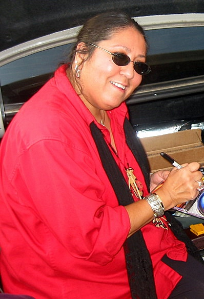 Mary Youngblood signing a CD